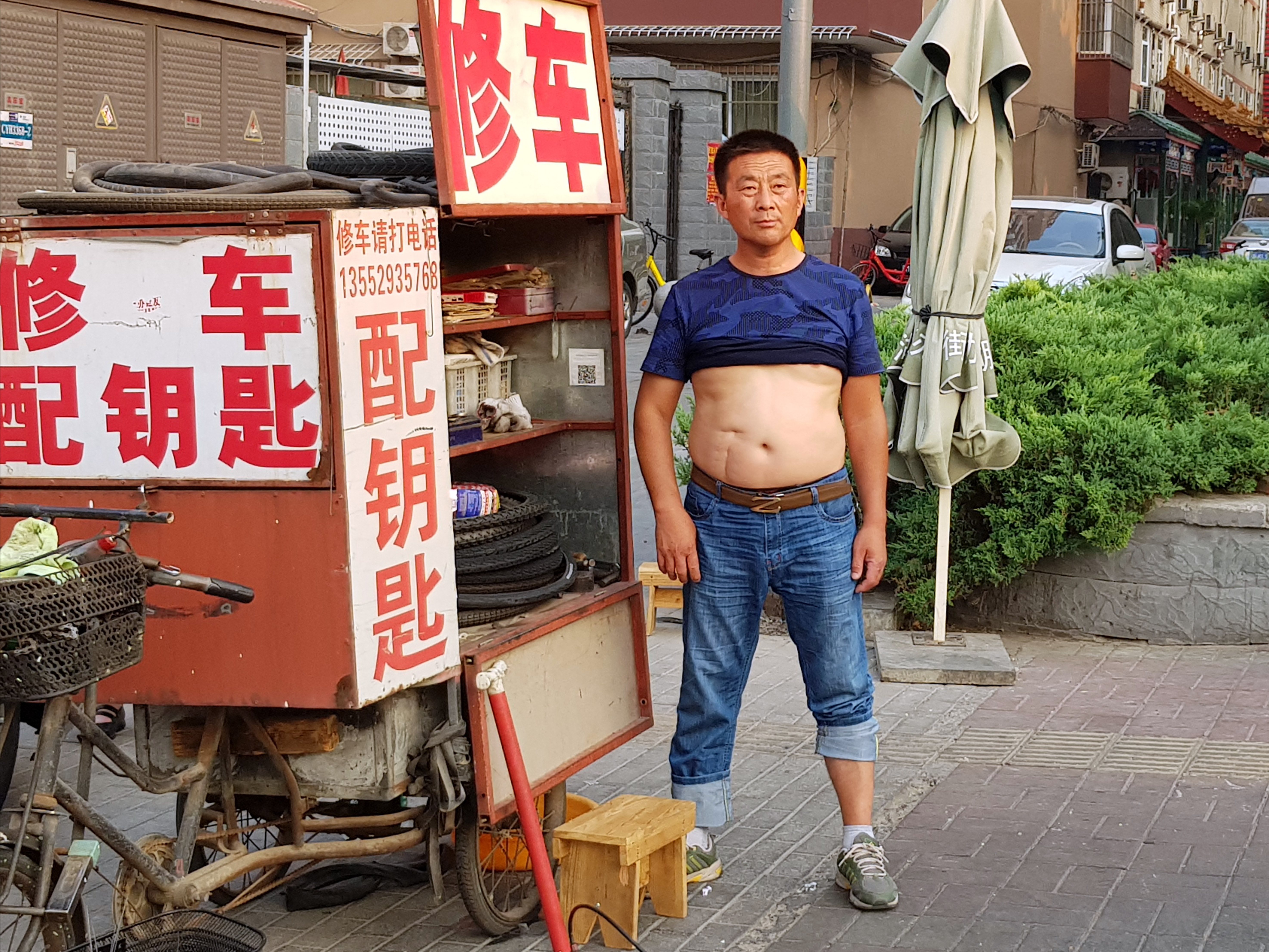 Beijing/China: During summertime, men like to roll up their shirts and let their bellies breath turning any top into a “Beijing bikini”. No envy, promised.